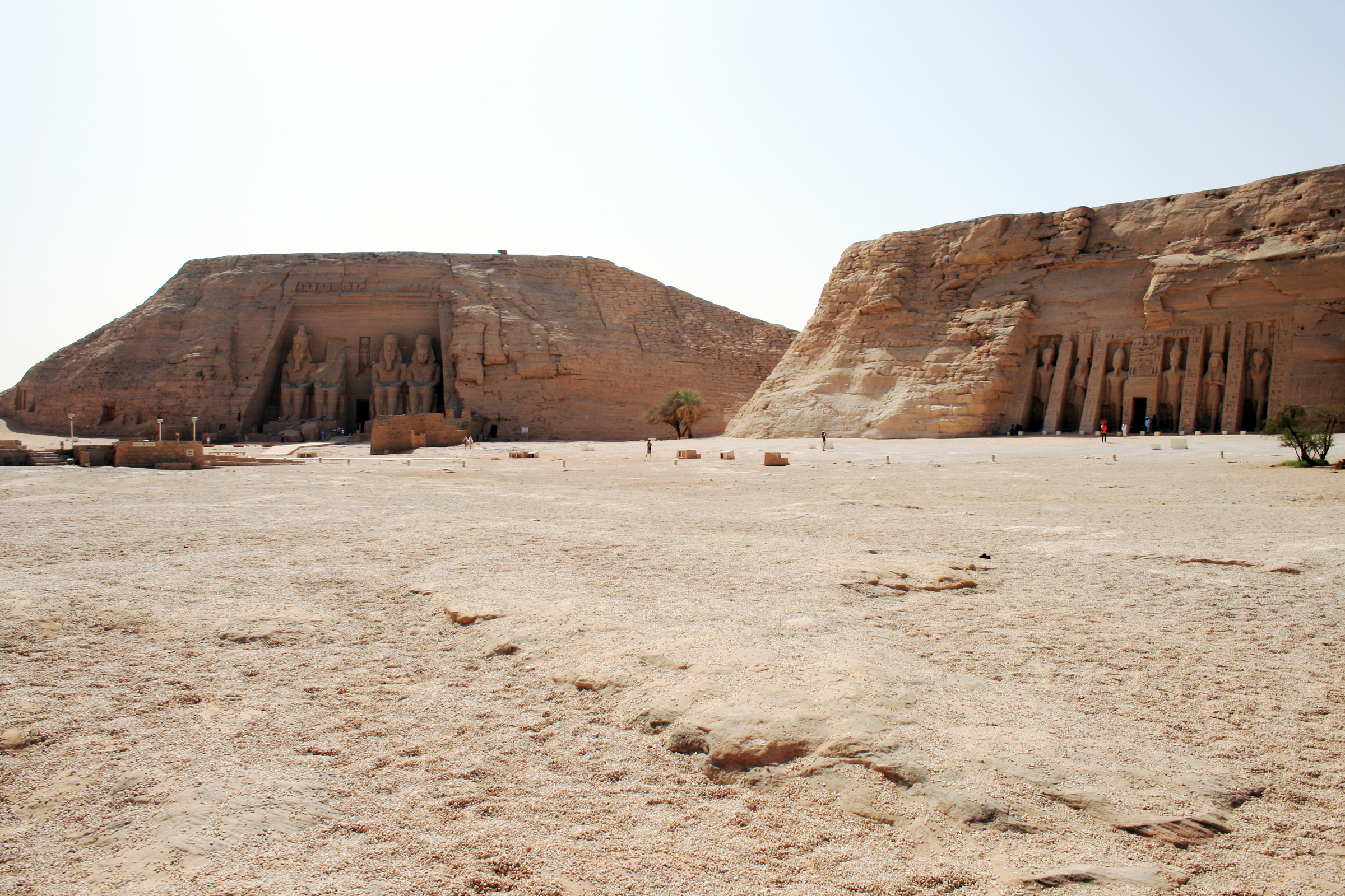 Abu Simbel temples near Aswan Dam on Nile river Egypt